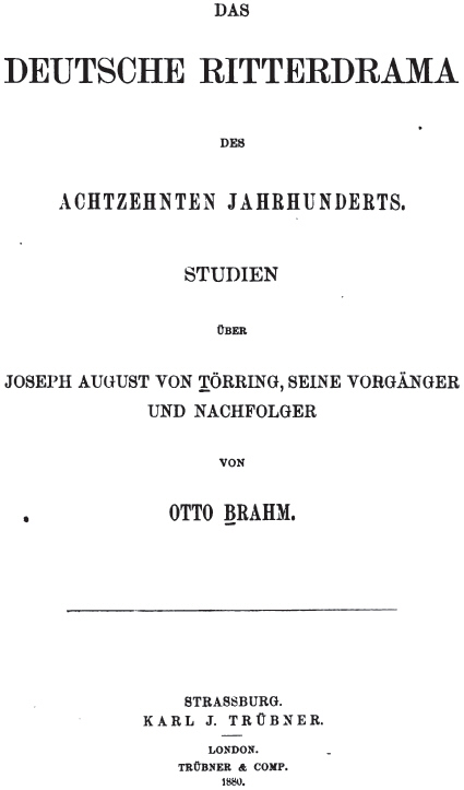 Title page of Otto Brahm’s Das deutsche Ritterdrama des achtzehnten Jahrhunderts.